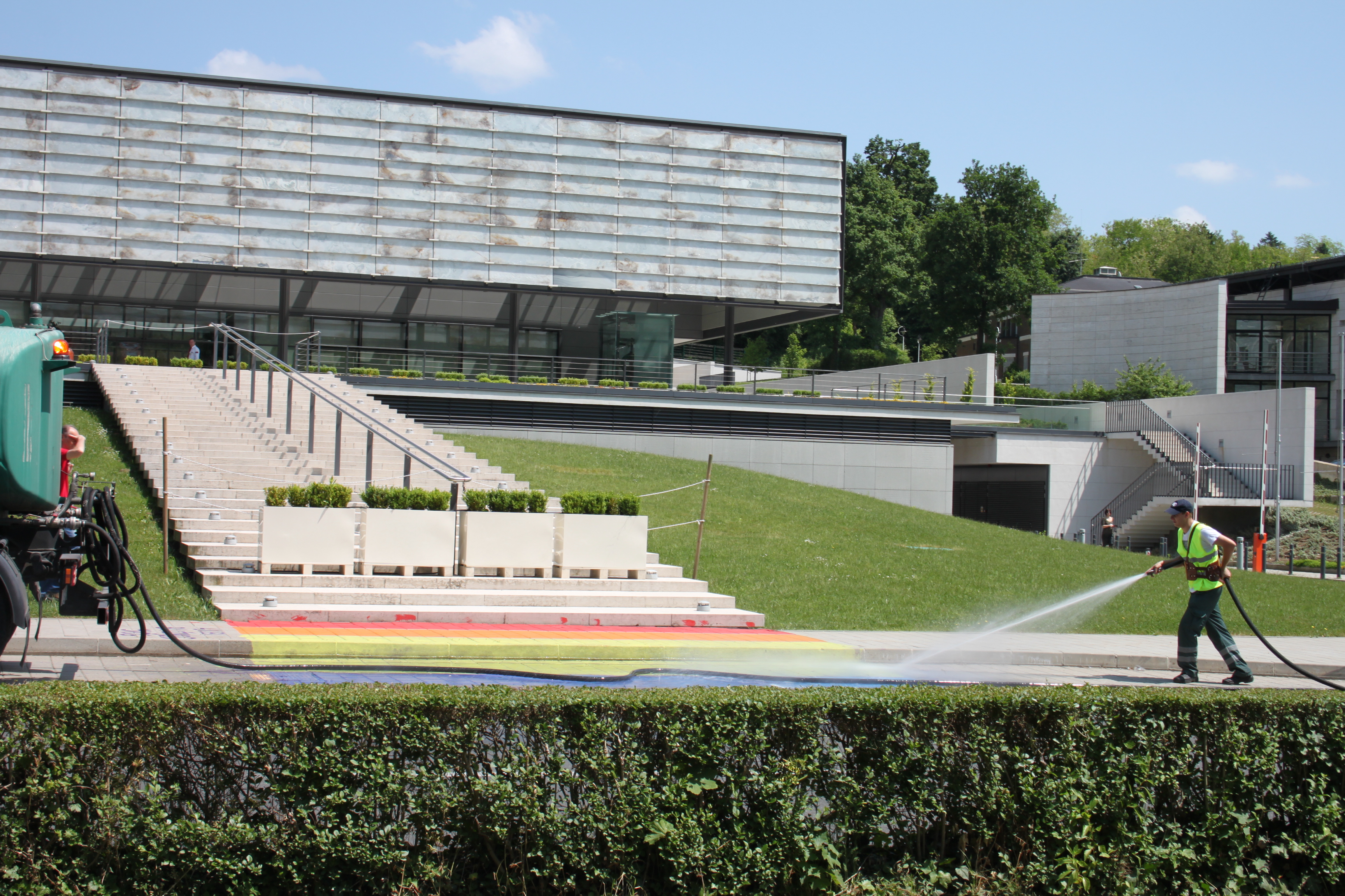 Removal of a rainbow drawn on the occasion of the International Day Against Homophobia 2015 on a sidewalk in front of the Croatian Bishops' Conference building in Zagreb, with the words "Ljubi bližnjeg svog" ('Love thy neighbour') and a verse "Ima jedna duga (cesta)" (lit. 'There's one long (road)', 'There's a rainbow') on both sides of the rainbow.